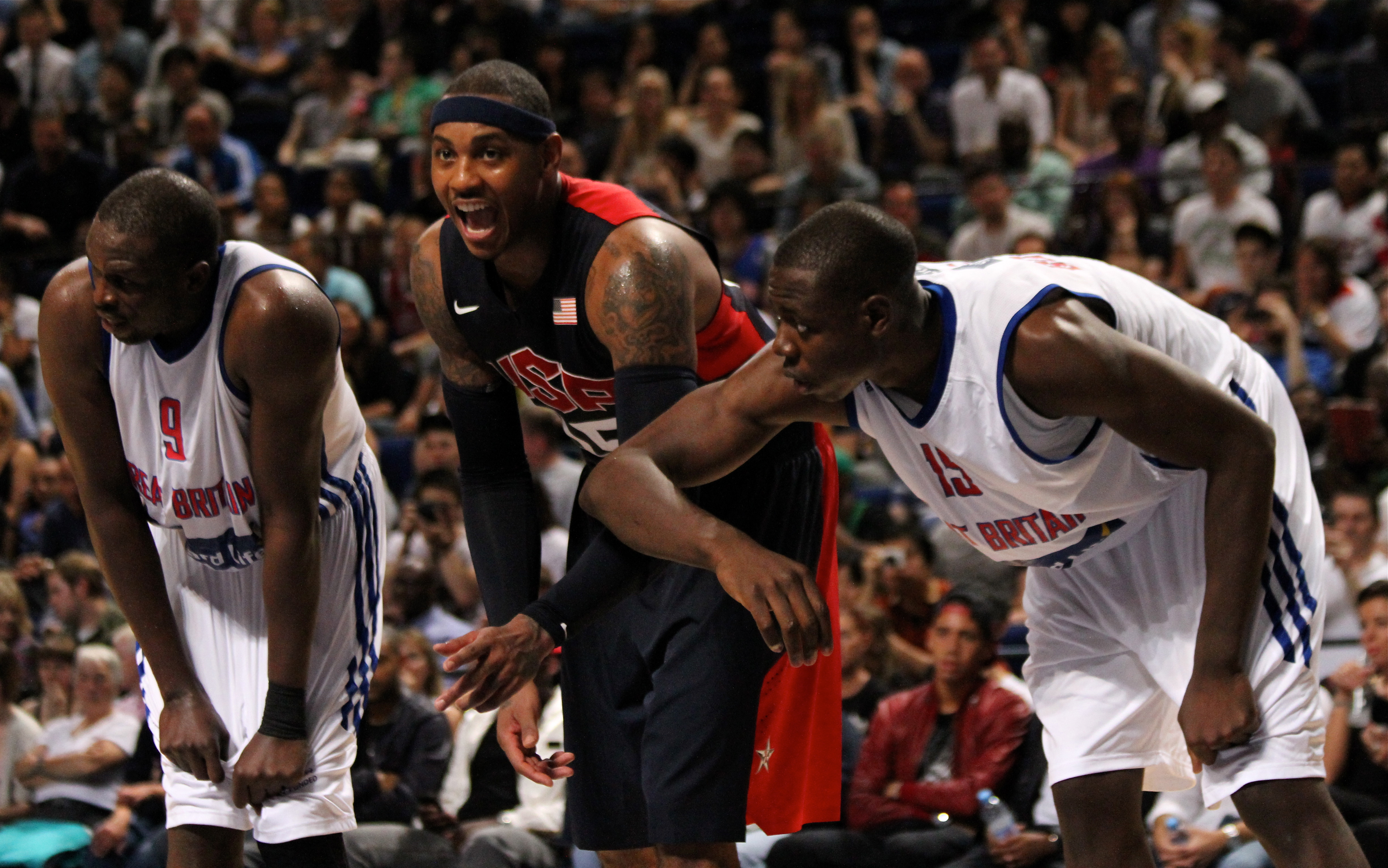 Great Britain's Luol Deng (left) and Eric Boateng (right), with United States' Carmelo Anthony. From Globalite Magazine.